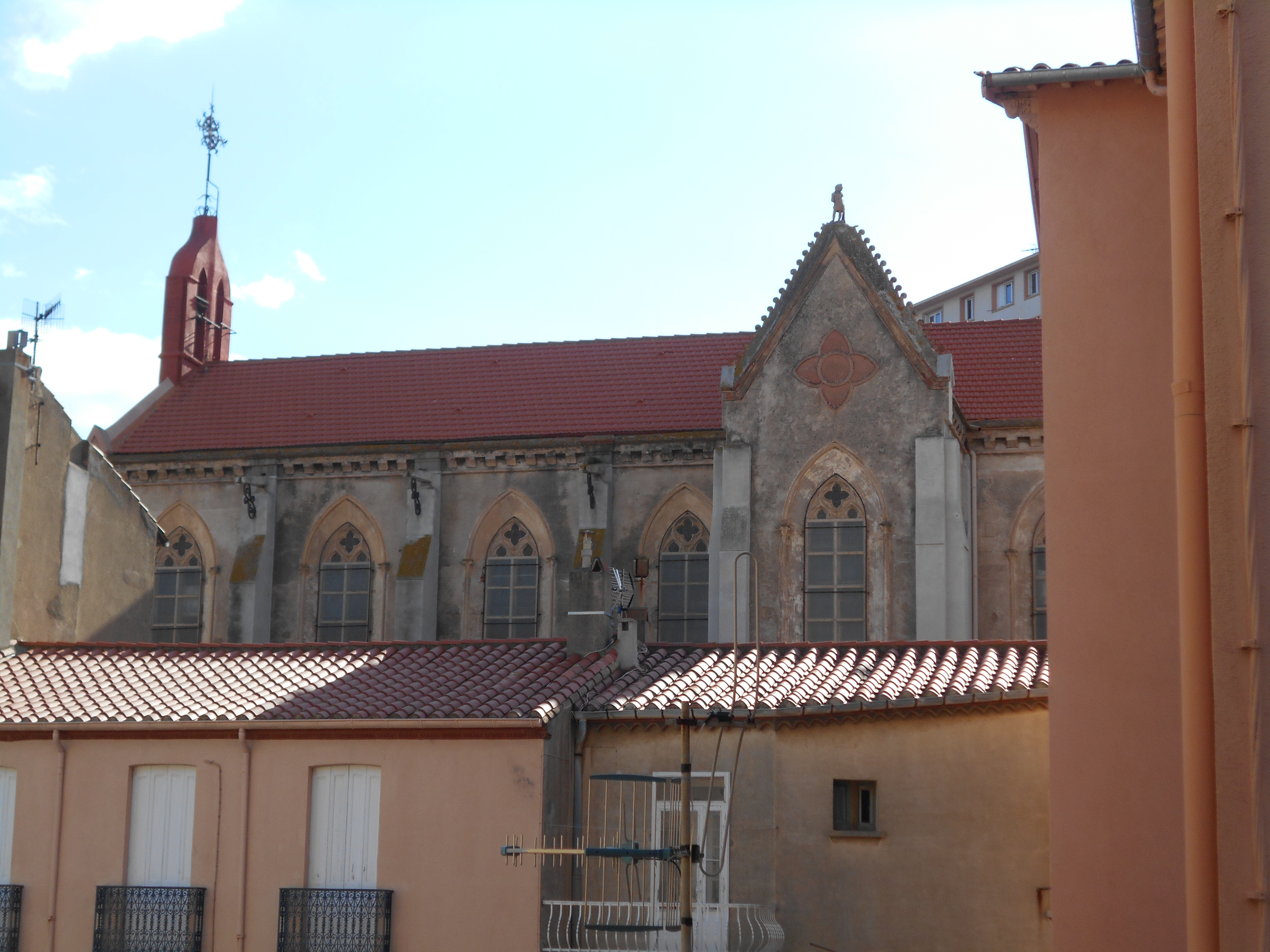 Transfiguration du Saint-Sauveur church in Cerbère, France